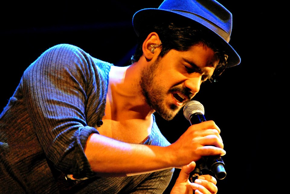 Alessandro Mannarino live in Genova @ Arena del mare 16 Luglio 2012